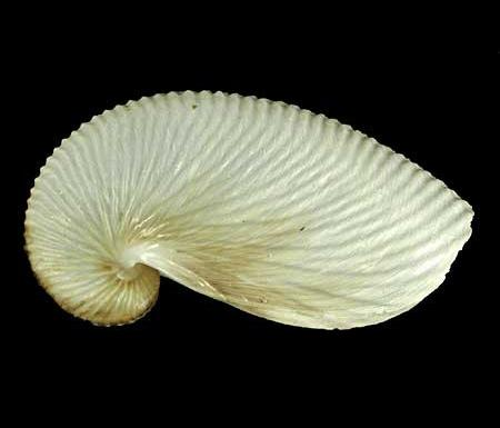 Argonauta nouryi world record size shell (from private collection).